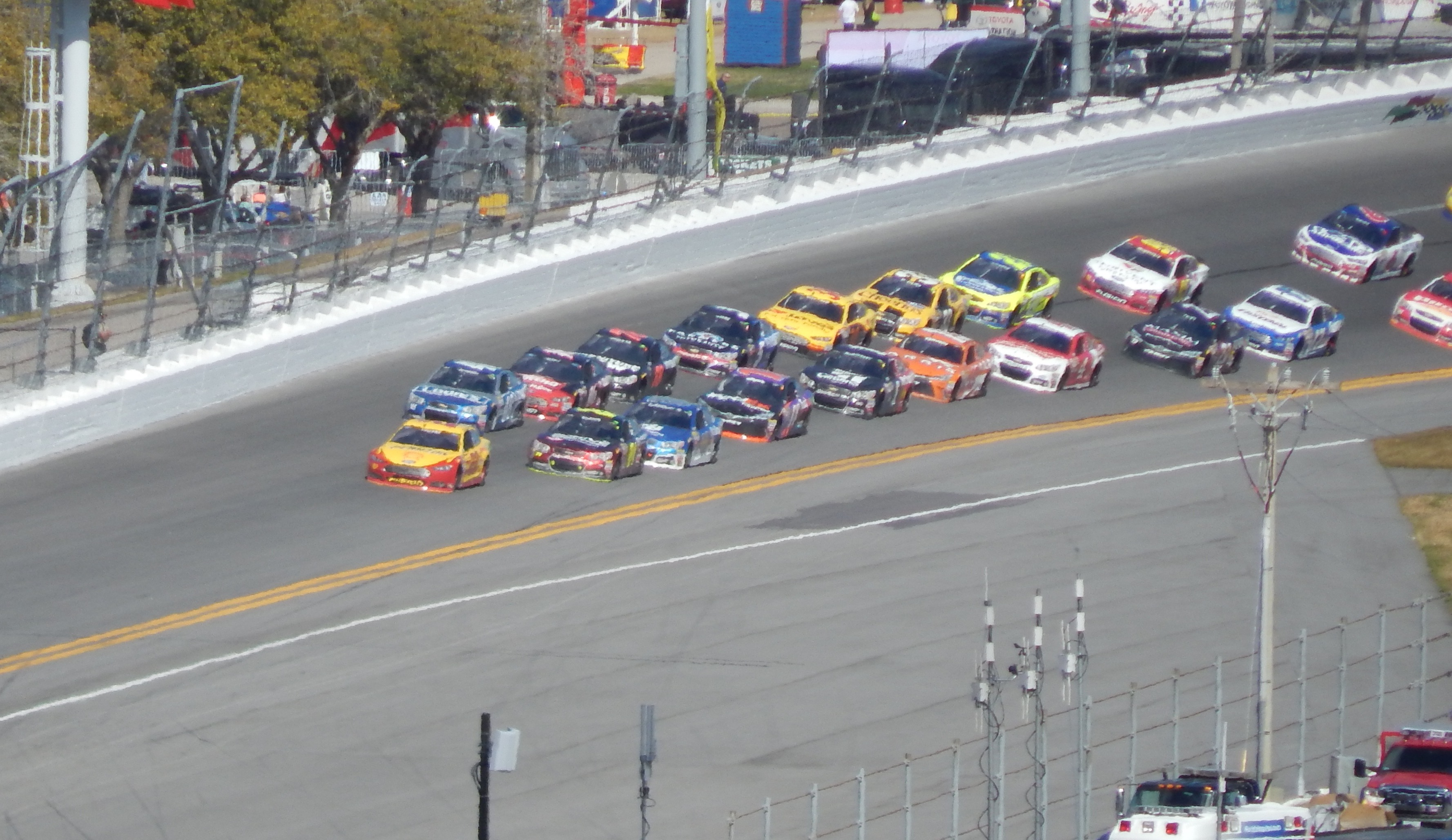 Joey Logano takes the lead on the 47th lap of the 2015 Daytona 500.